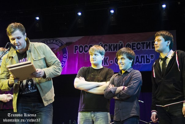 Группа «Герои Рабочего Класса», г. Иваново, 2012 год.